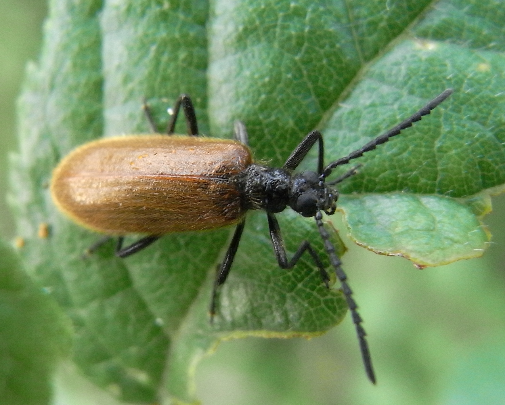 Darkling Beetle (Lagria hirta).